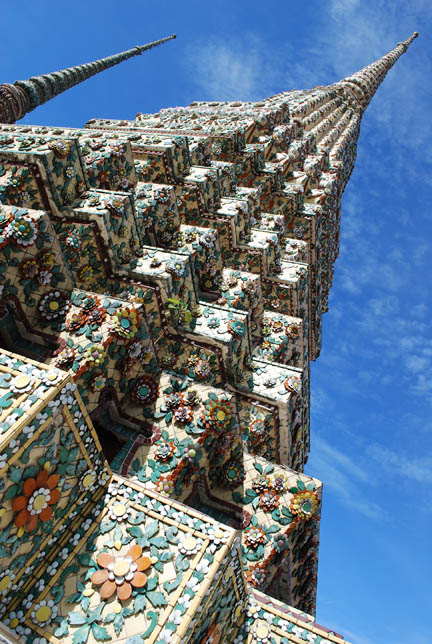 Next to the Reclining Buddha wihan is an enclosure holding the four largest of the temple's 95 chedis. They are decorated with ceramic tiles and three dimensional ceramic pieces which form intricate floral patterns.